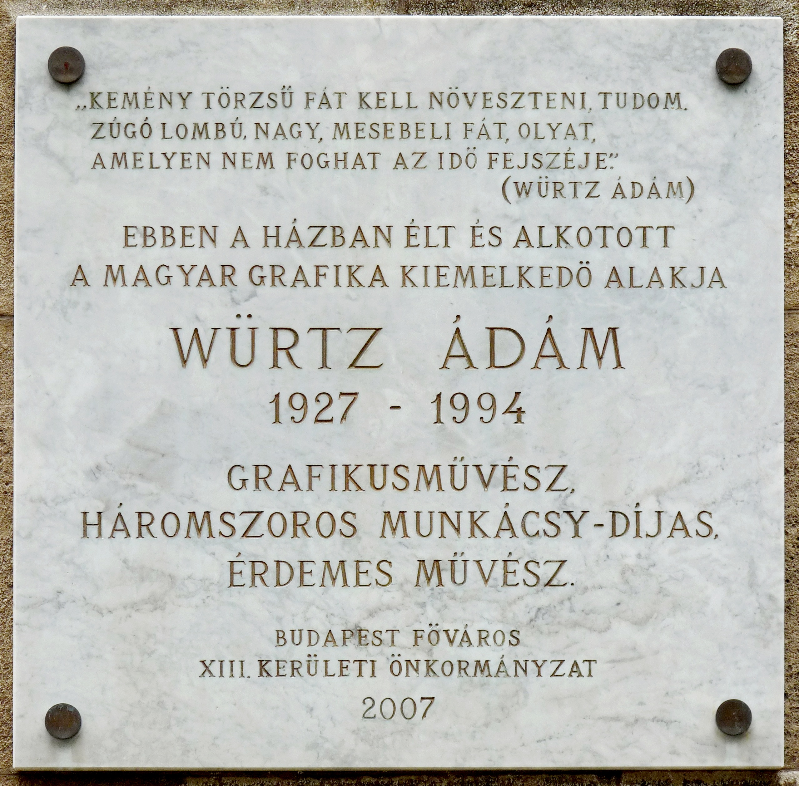 Commemorative plaque to Mr. Ádám Würtz (1927–1997) Hungarian graphic artist and book illustrator, three times winner of Price Munkácsi Mihály. It is affixed to the wall of the "House of Artists" where he lived and worked. The plate has been unveilled on 1 June 2007. Quota: "Hard-trunked tree must be grown, I know. A large fairy tree with a murmuring foliage that can withstand the ax of the time." – Ádám Würtz (Budapest, District XIII, Máglya Alley Nr 4)